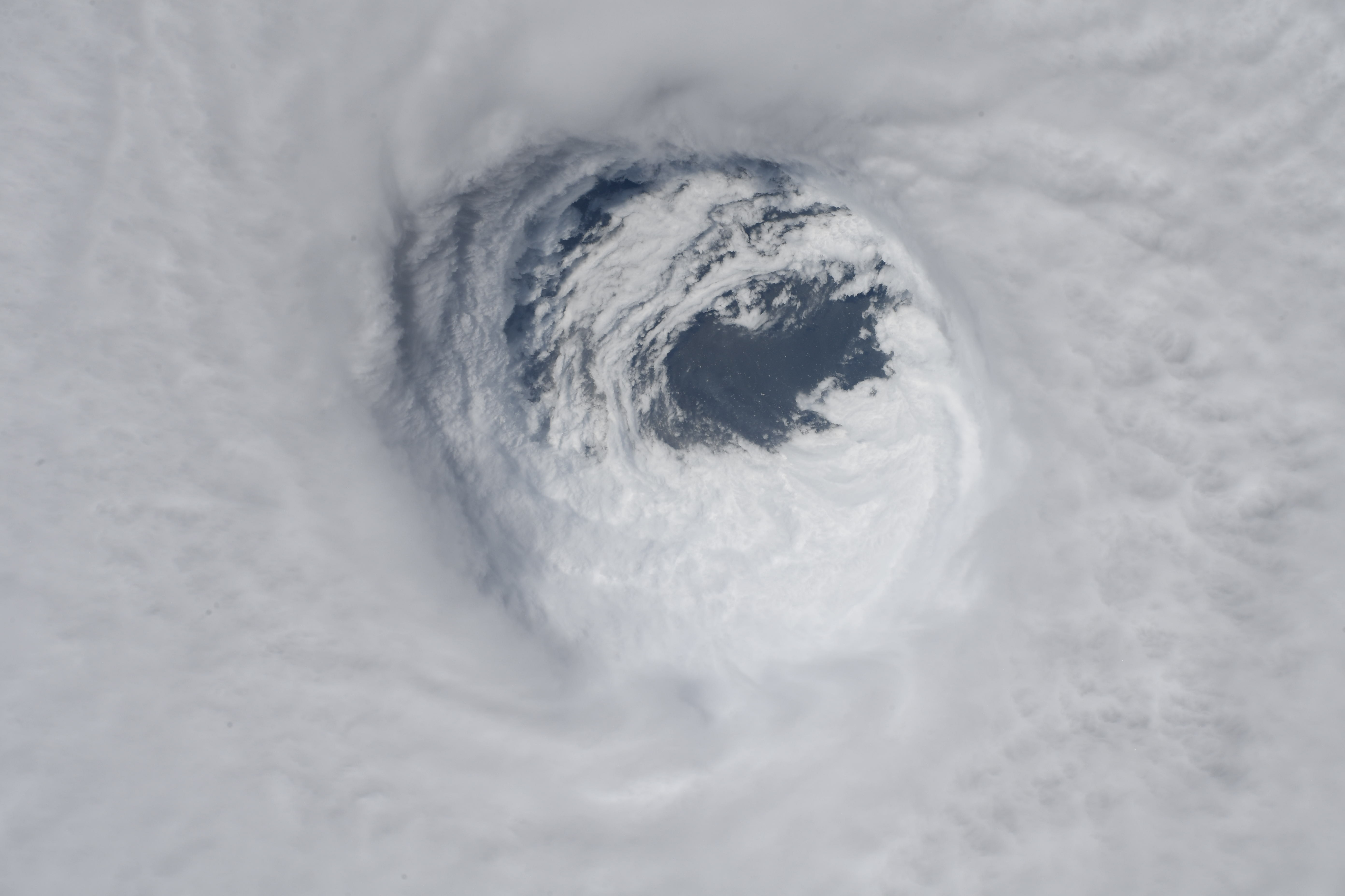 A view of the eye of Hurricane Michael taken on Oct. 10, 2018 from the International Space Station currently orbiting Earth. The photo was taken by astronaut Dr. Serena M. Auñón-Chancellor, who began working with NASA as a Flight Surgeon in 2006. In 2009, she was selected as a NASA astronaut. Credit: NASA NASA image use policy. NASA Goddard Space Flight Center enables NASA’s mission through four scientific endeavors: Earth Science, Heliophysics, Solar System Exploration, and Astrophysics. Goddard plays a leading role in NASA’s accomplishments by contributing compelling scientific knowledge to advance the Agency’s mission. Follow us on Twitter Like us on Facebook Find us on Instagram